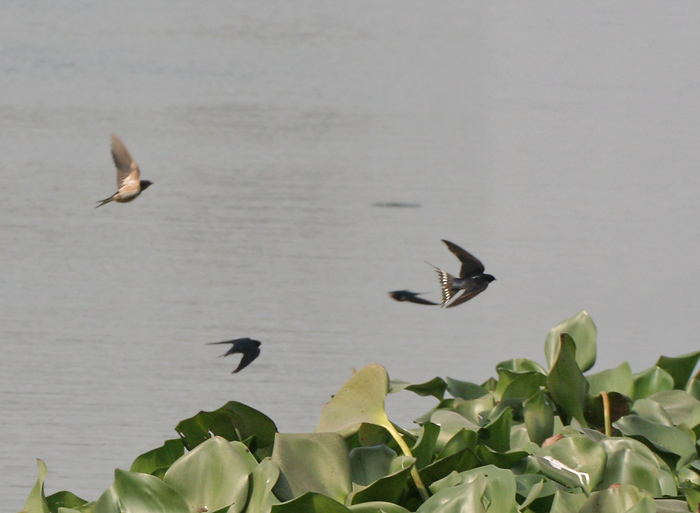 Barn Swallow Hirundo rustica in Kolkata, West Bengal, India.